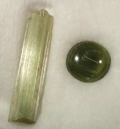 Actinolite Locality: Khorixas, Damaraland District, Kunene Region, Namibia (Locality at ) Size: 3.2 x .7 x .6 cm. A fine natural/cut set of a beautiful, lustrous and gemmy cats-eye Actinolite crystal, along with a deep-green chatoyant cab. Ex. Charlie Key Collection.